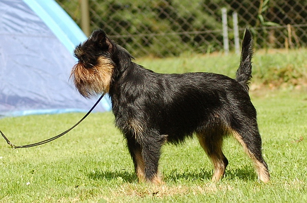 Griffon Belge Fiesta's Paradise Beyond Infiniti